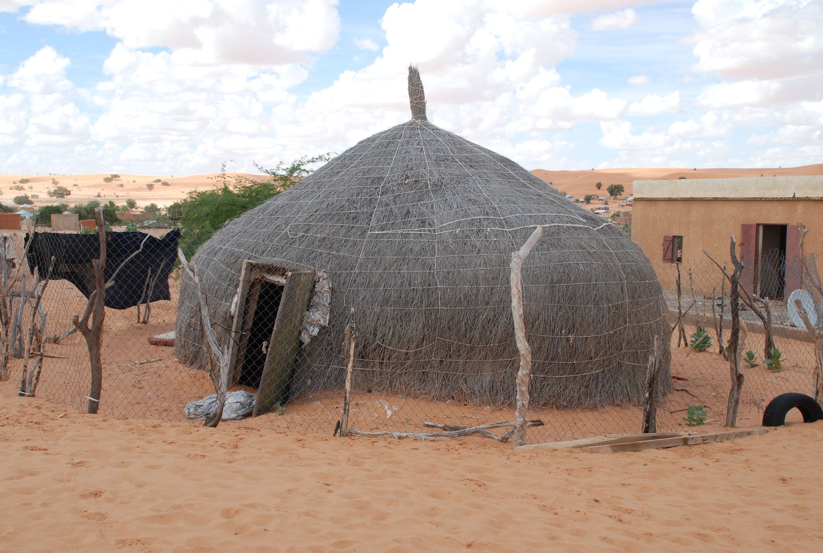 Boutilimit, Mauritania, hut (tikkit)